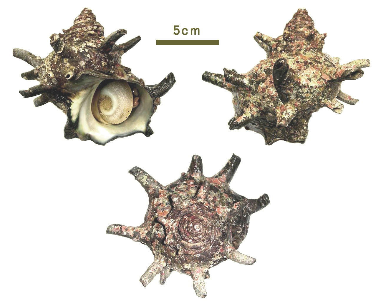 Horned Turban Turbo (Batillus) cornutus Lightfoot, 1786 (Turbinidae: Vetigastropoda) caught by a fisherman off the coast of Chiba Pref., Honshu, Japan in 2005. 3 views of the same shell. ja: 千葉県の漁業者が採取したja:サザエ。